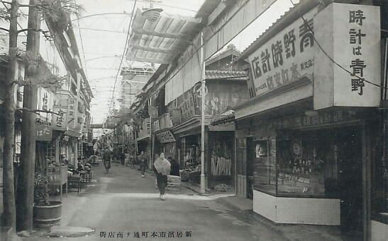 Honmachi-dori in Niihama, Ehime pref., Japan.